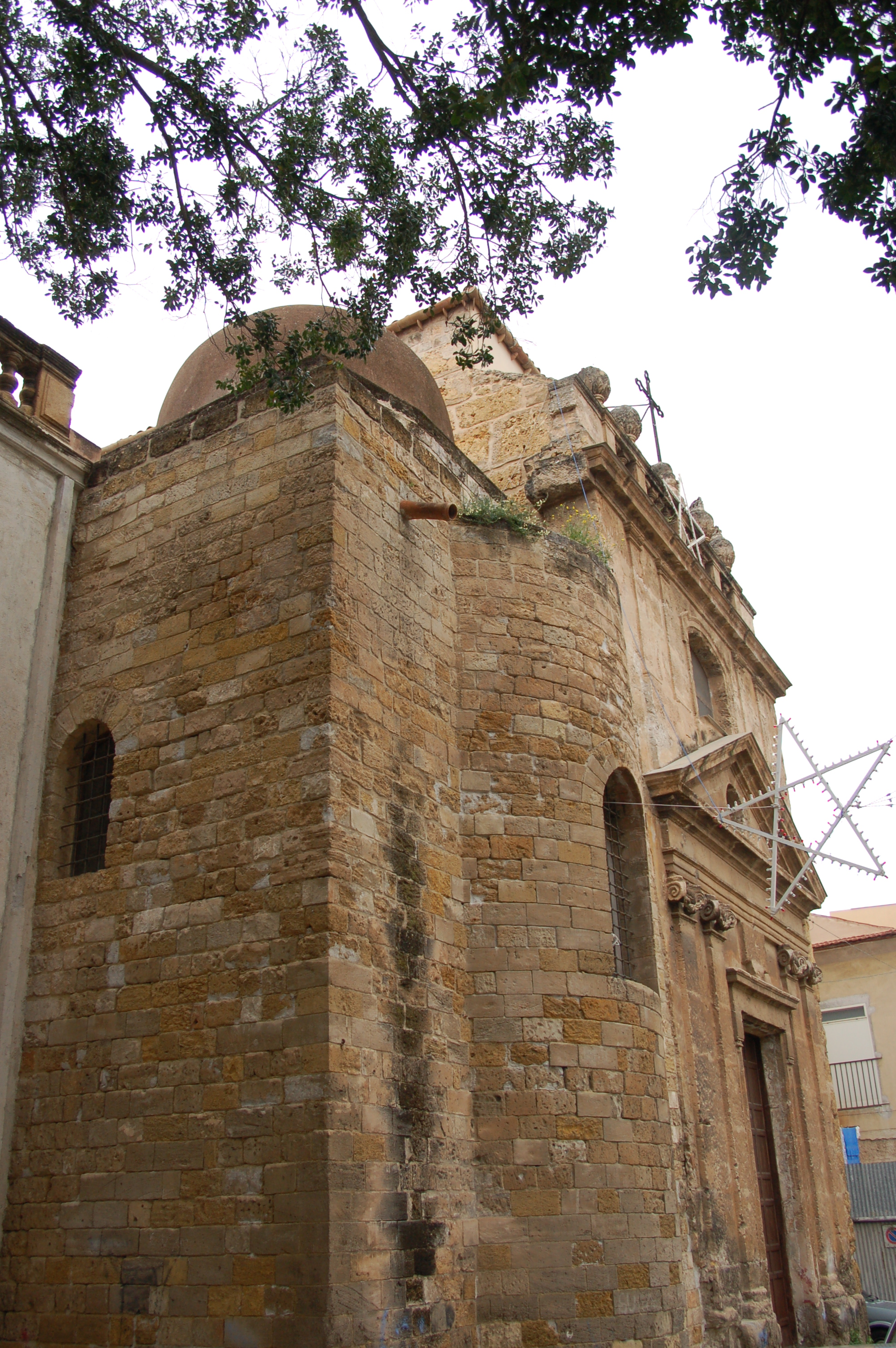 Apside of SS. Trinità alla Zisa (later Sant'Anna) in Palermo, ITALY